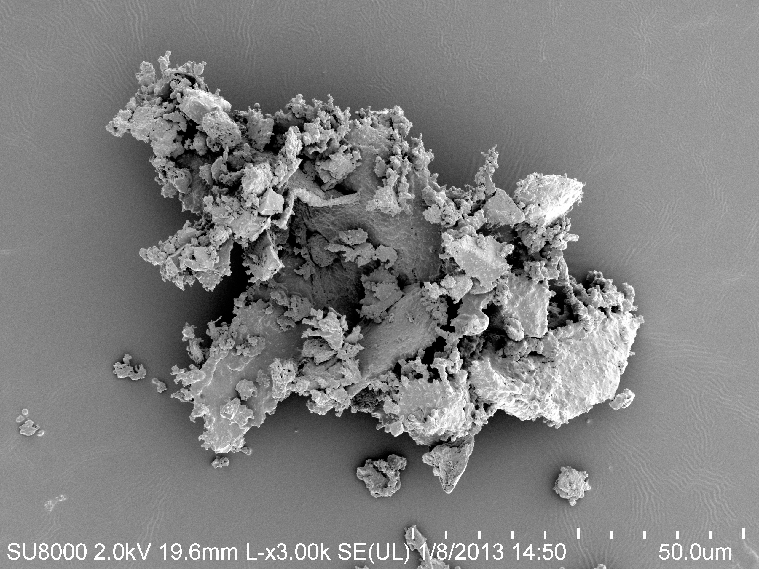 House dust under high magnification.Credit: NIAID